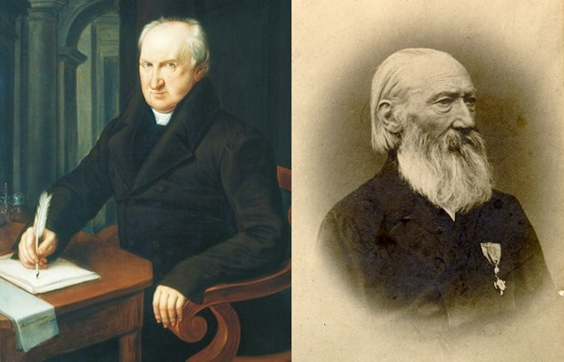 Franc Jožef Hanibal Hochenwart and Ferdinand Jožef Schmidt